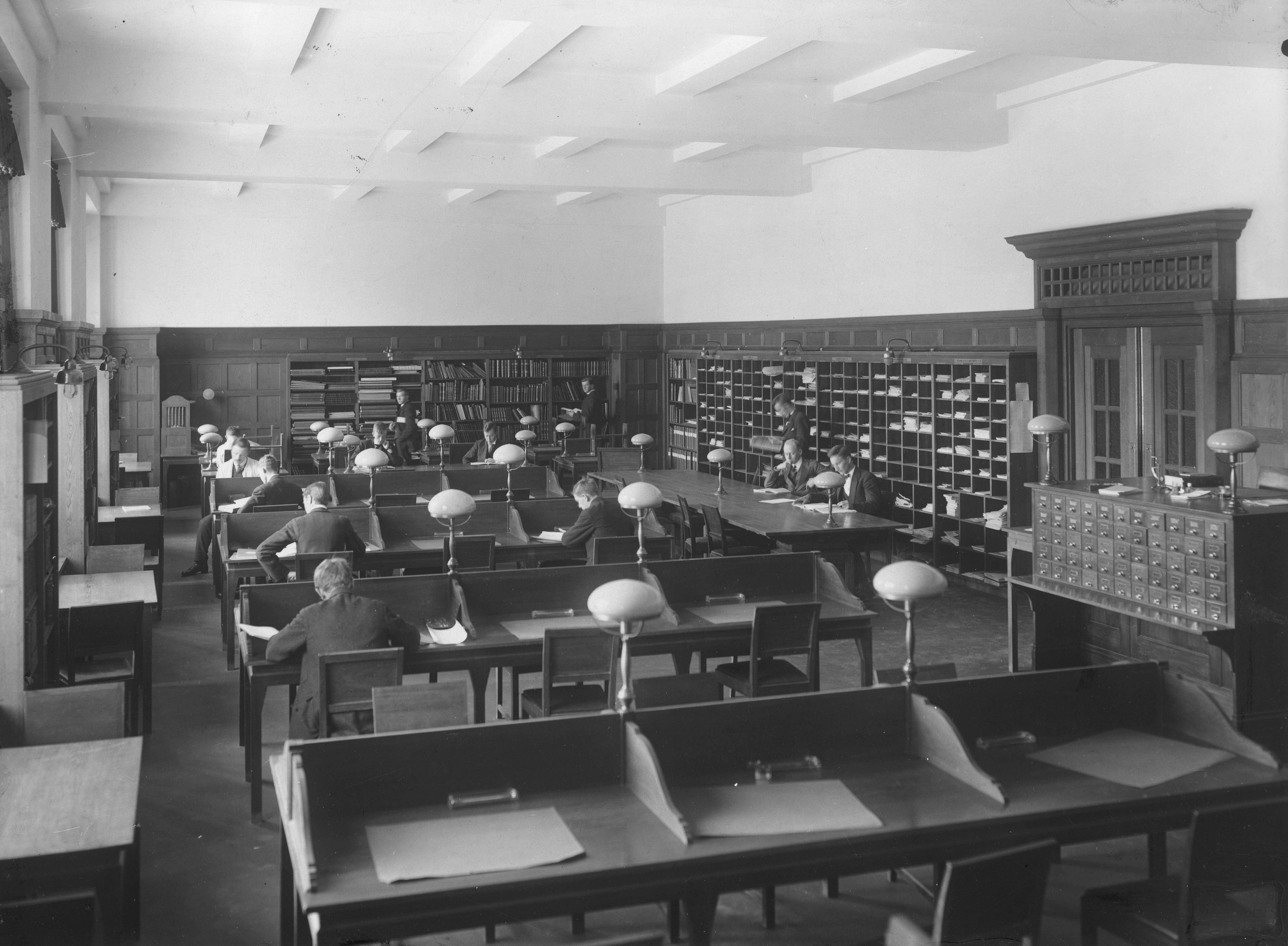 The main building (=Hovedbygningen) of he Norwegian Institute of Technology(=NTH) opened in 1910. Architect: Bredo Greve. In 1915 a central wing was added, containing library facilities. Same architect. Today the building is the main building at The Campus NTNU Gløshaugen, Trondheim, Norway - and the room is still part of The NTNU University library.